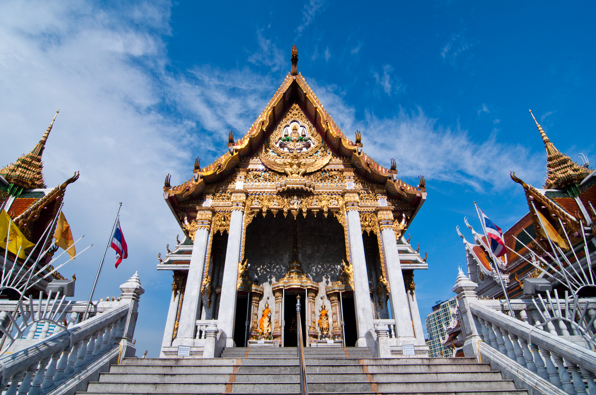 The main temple building on the Wat Hua Lamphong compound in Bangkok, Thailand. Wat Hua Lamphong is a large temple complex on Rama 4 Road near the Hua Lamphong station, the main train station in the city.